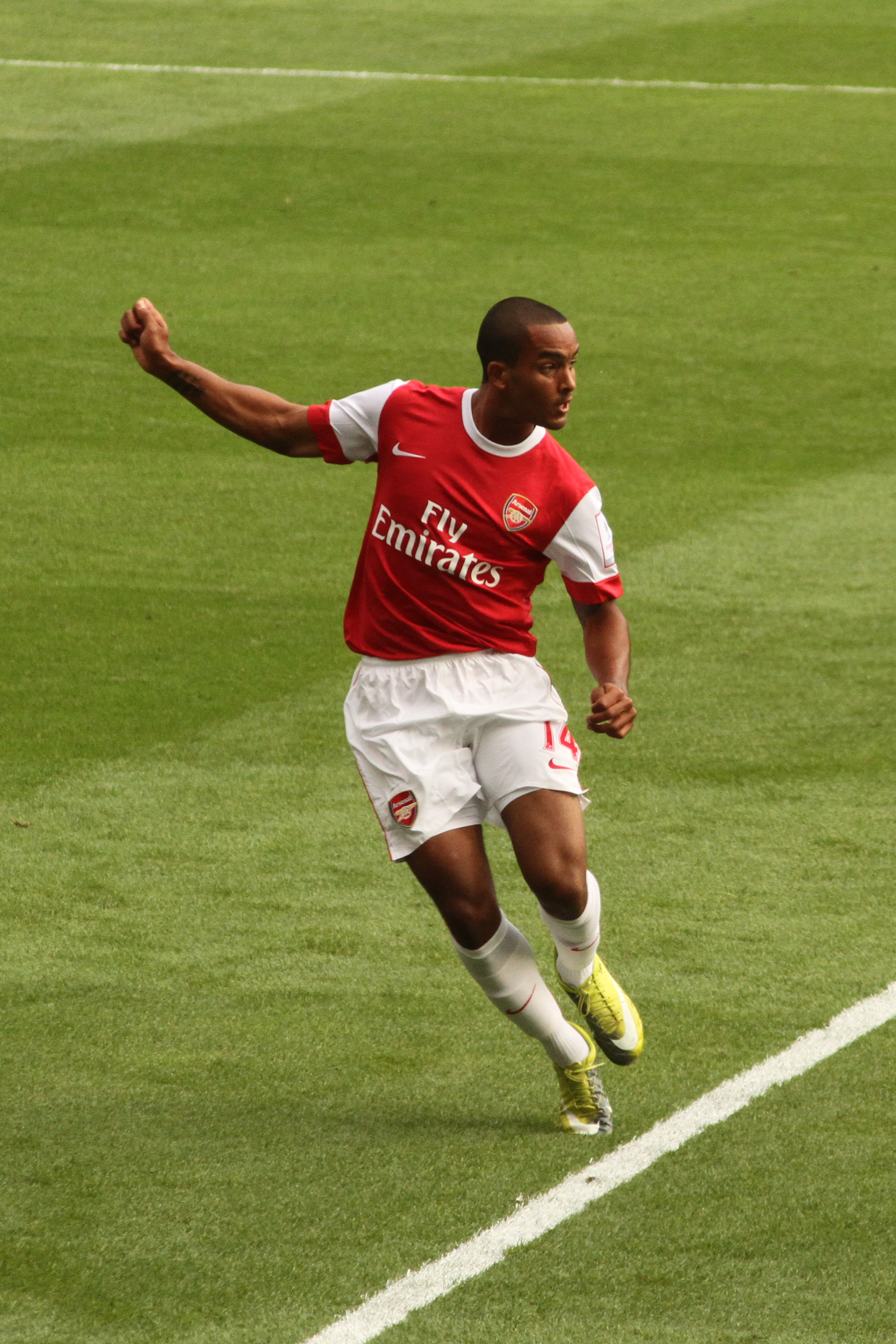 English foorball player Theo Walcott while playing for Arsenal F.C.